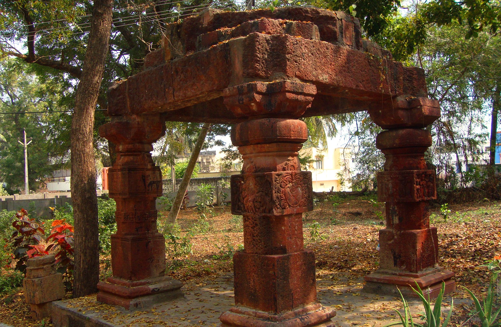 There are 25 inscriptions of Vengi on the pillars of this mandapam at Kotadibba (Eluru Fort)